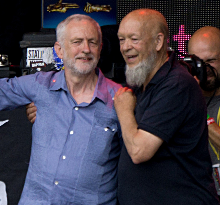 Jeremy Corbyn and Michael Eavis together on the Pyramid Stage at the 2017 Glastonbury Festival